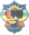 Coat of arms of the former Mešeišta Municipality, Macedonia.